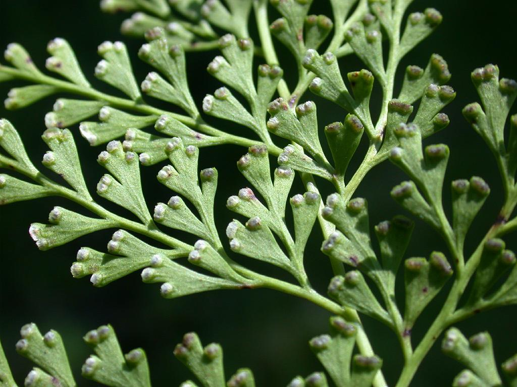 Sphenomeris chinensis (Lindsaeaceae) Japanese name:Horasinobu Date;2007,07,31;Tanabe city, Wakayama prefecture, Japan Author;Keisotyo